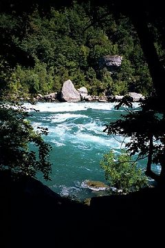 Niagara River at the Niagara Glen. It was taken downstream from Niagara Falls on the Canadian side of the river in the Niagara Glen. The photograph was shot on a 35mm camera and scanned to JPG.